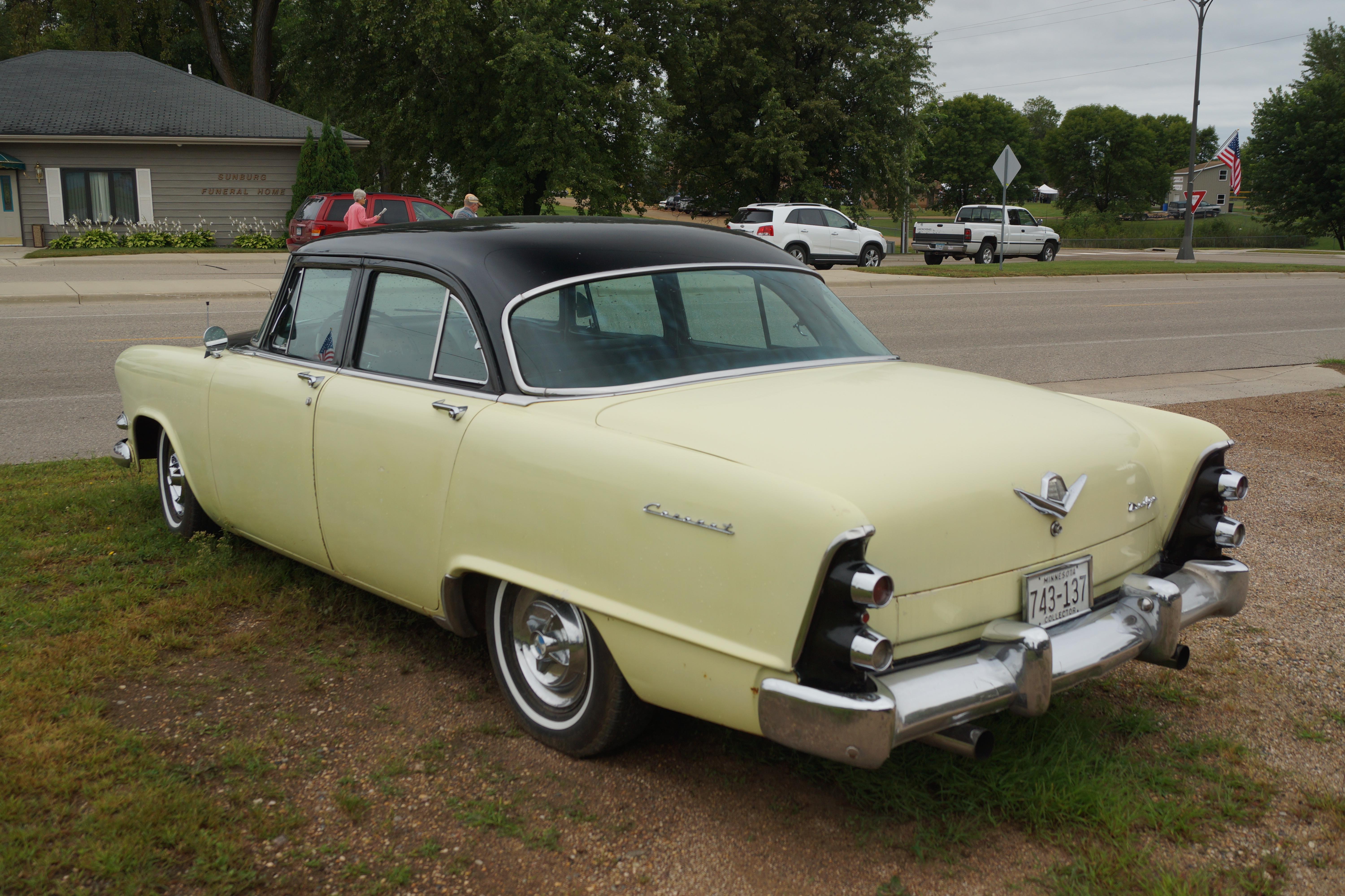 The Sunburg Trolls 8th Annual Classic Car Show & Swap Sunburg Community Center Sunburg, Minnesota September 2016 Click here for more car pictures at my Flickr site.